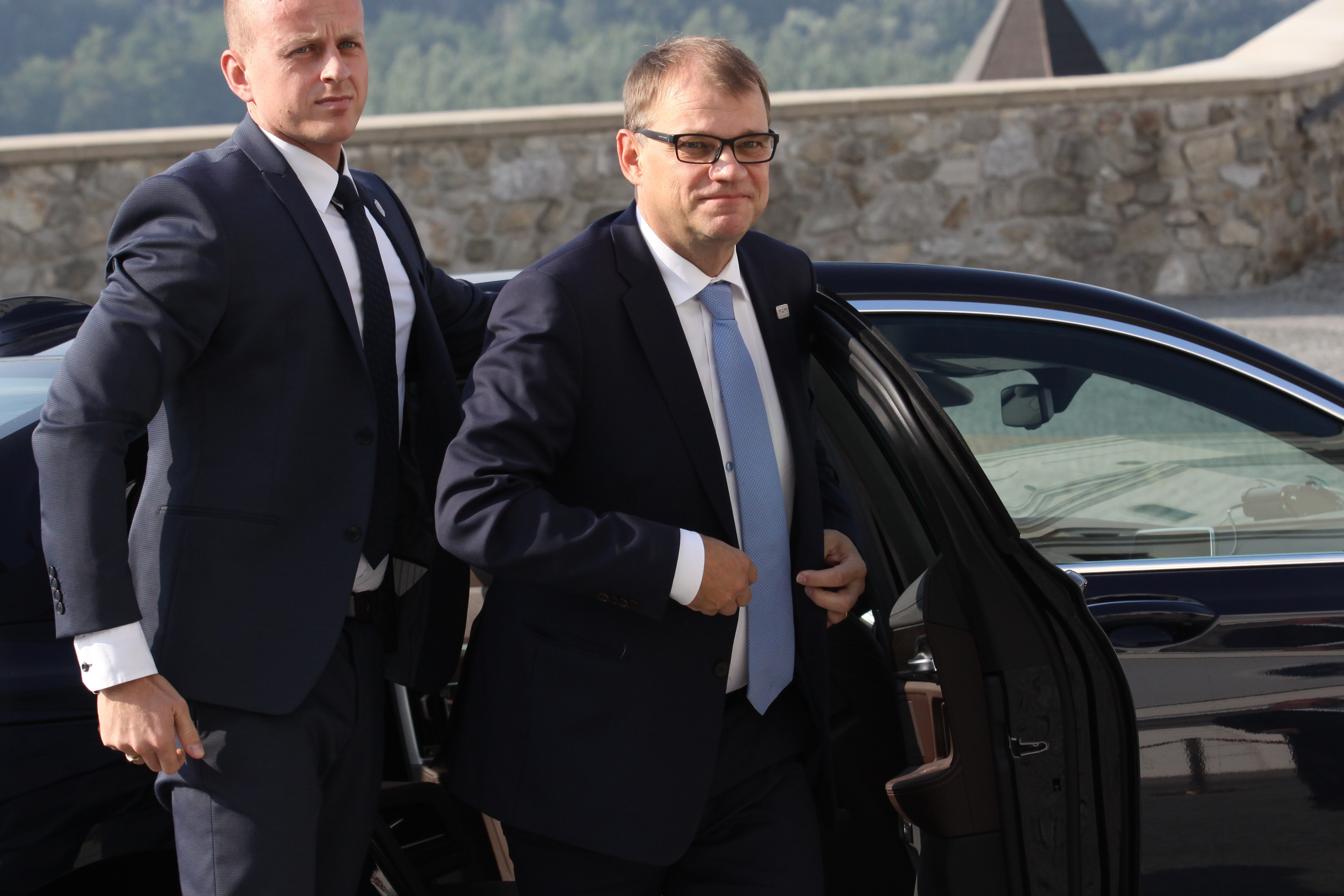 Finland, Mr. Juha Sipilä, Prime Minister Informal Meeting of the 27 Heads of the State or Government Photo: Andrej Klizan